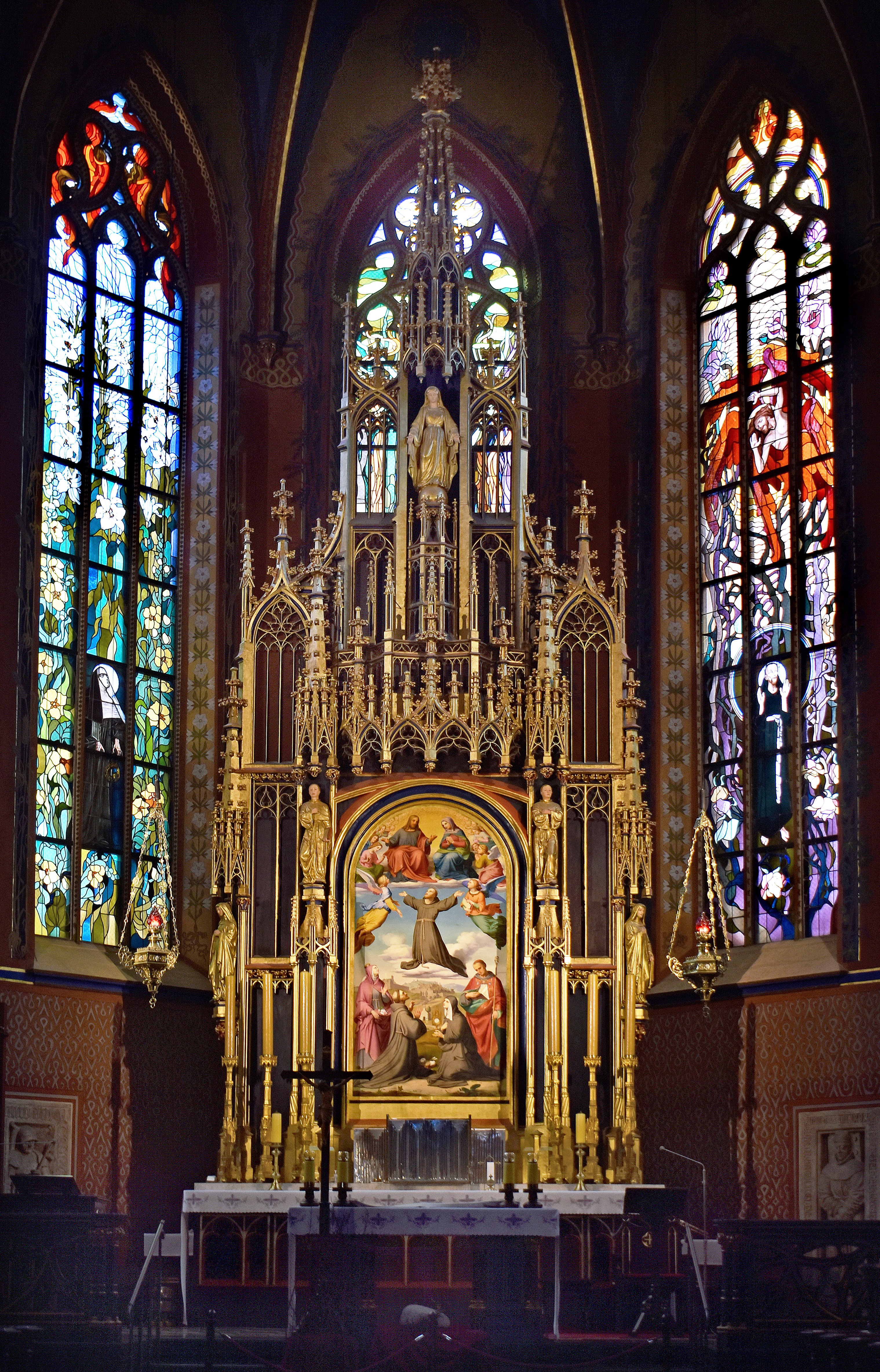 St. Francis of Assisi Church, main altar, 2 Franciszkanska street, Old Town, Krakow, Poland